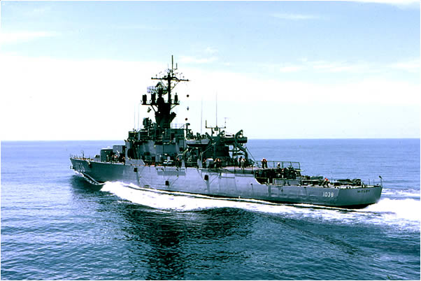 The U.S. Navy destroyer escort USS McCloy (DE-1038) underway in the Caribbean off Guantanamo Bay, Cuba, in June 1968.